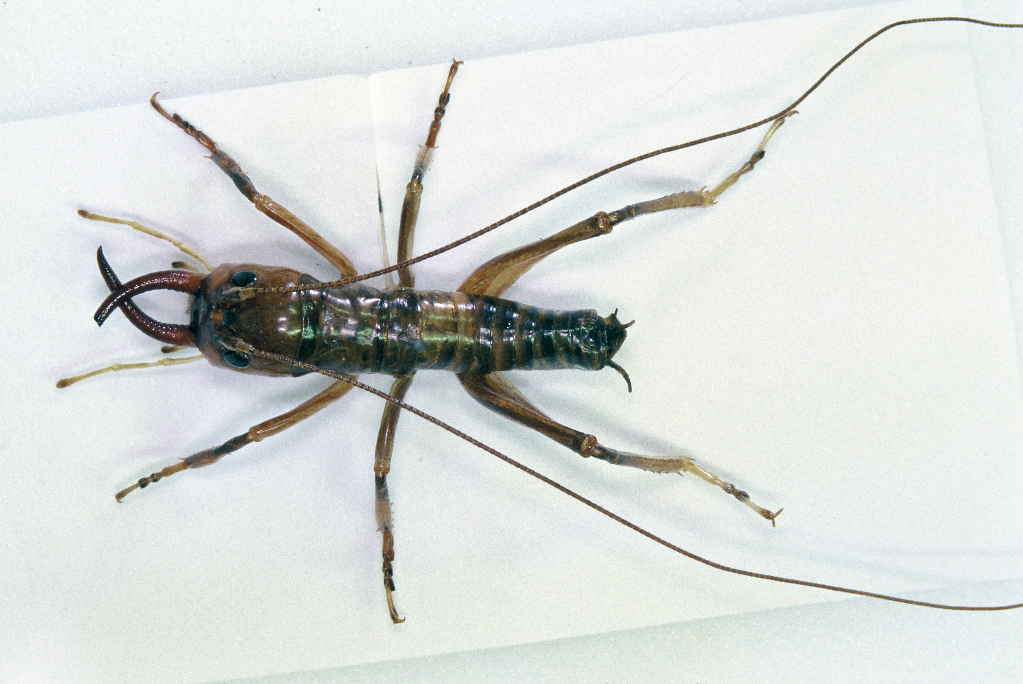 Northland tusked weta Anisoura nicobarica (syn. Hemiandrus monstrosus), part of the Museum of New Zealand Te Papa Tongarewa entomology collection, Wellington, 2000